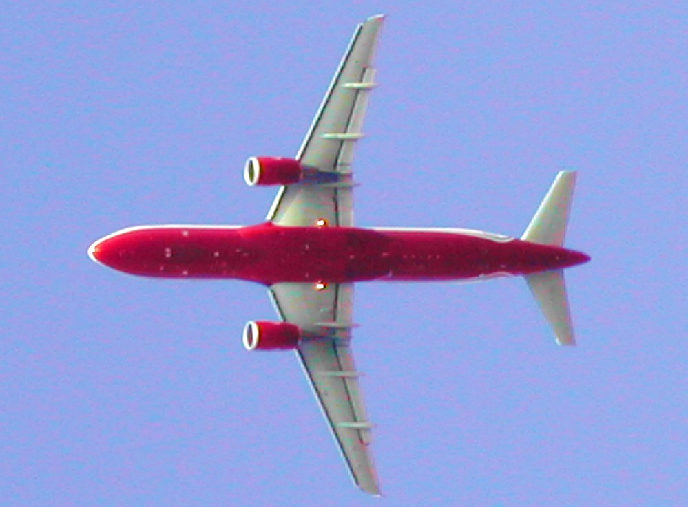 Air Berlin plane taking off from Son Sant Joan Airport Mallorca.